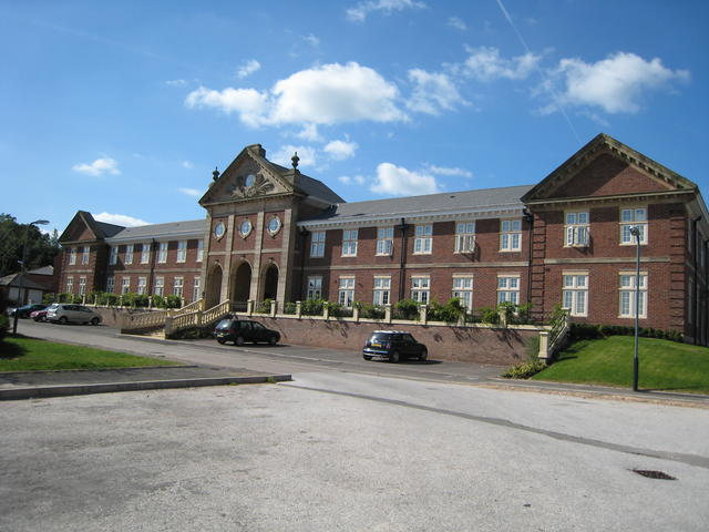 Former Hertford Hill Hospital. The conversion work on the former 3211 building into flats has now been completed leaving this imposing frontage.